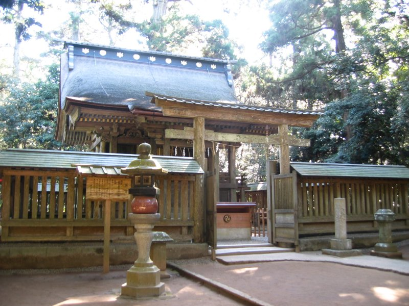 Okumiya, Kashima-jingū